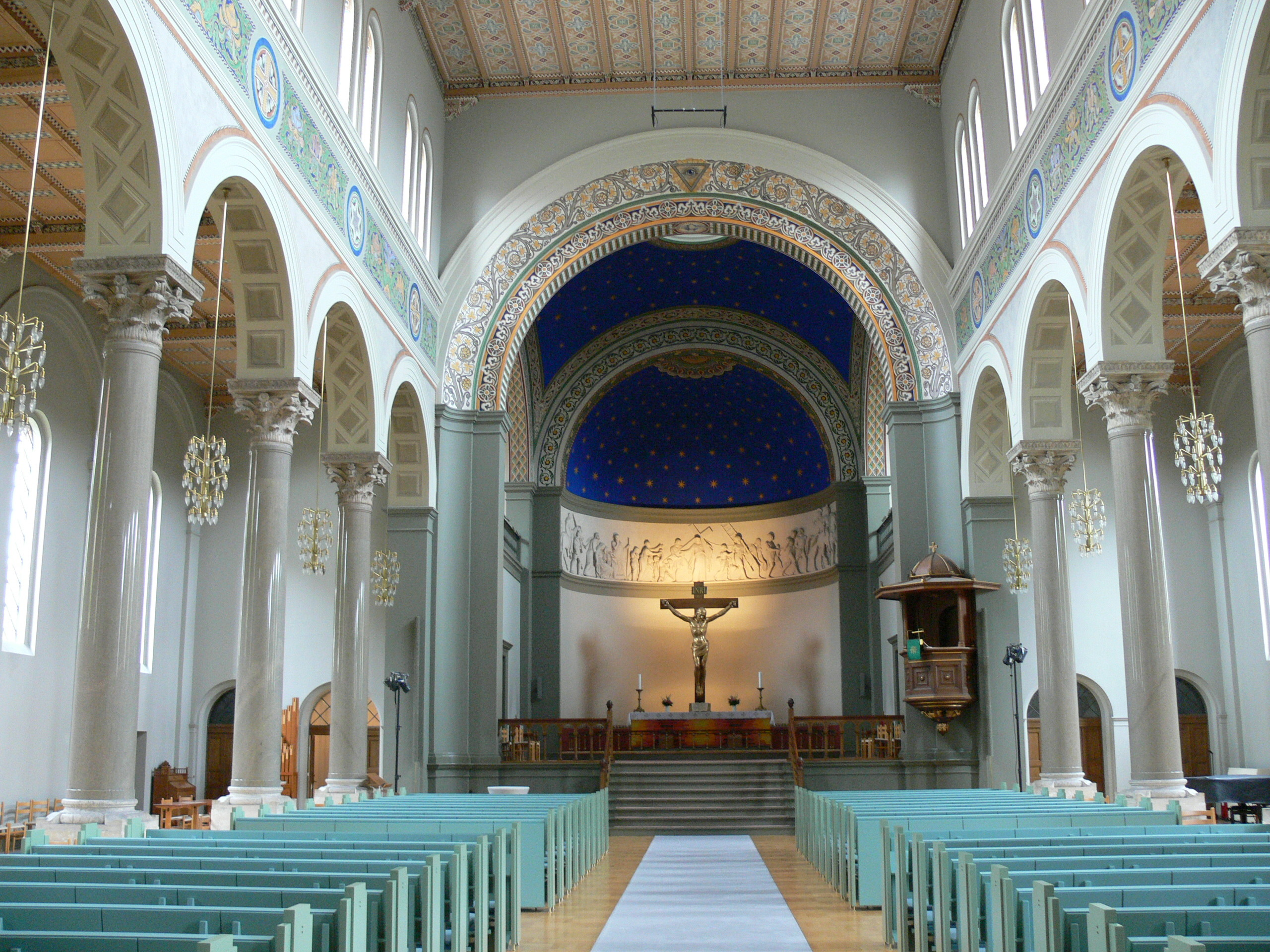 Saint Paul´s church (Copenhagen). Interior.